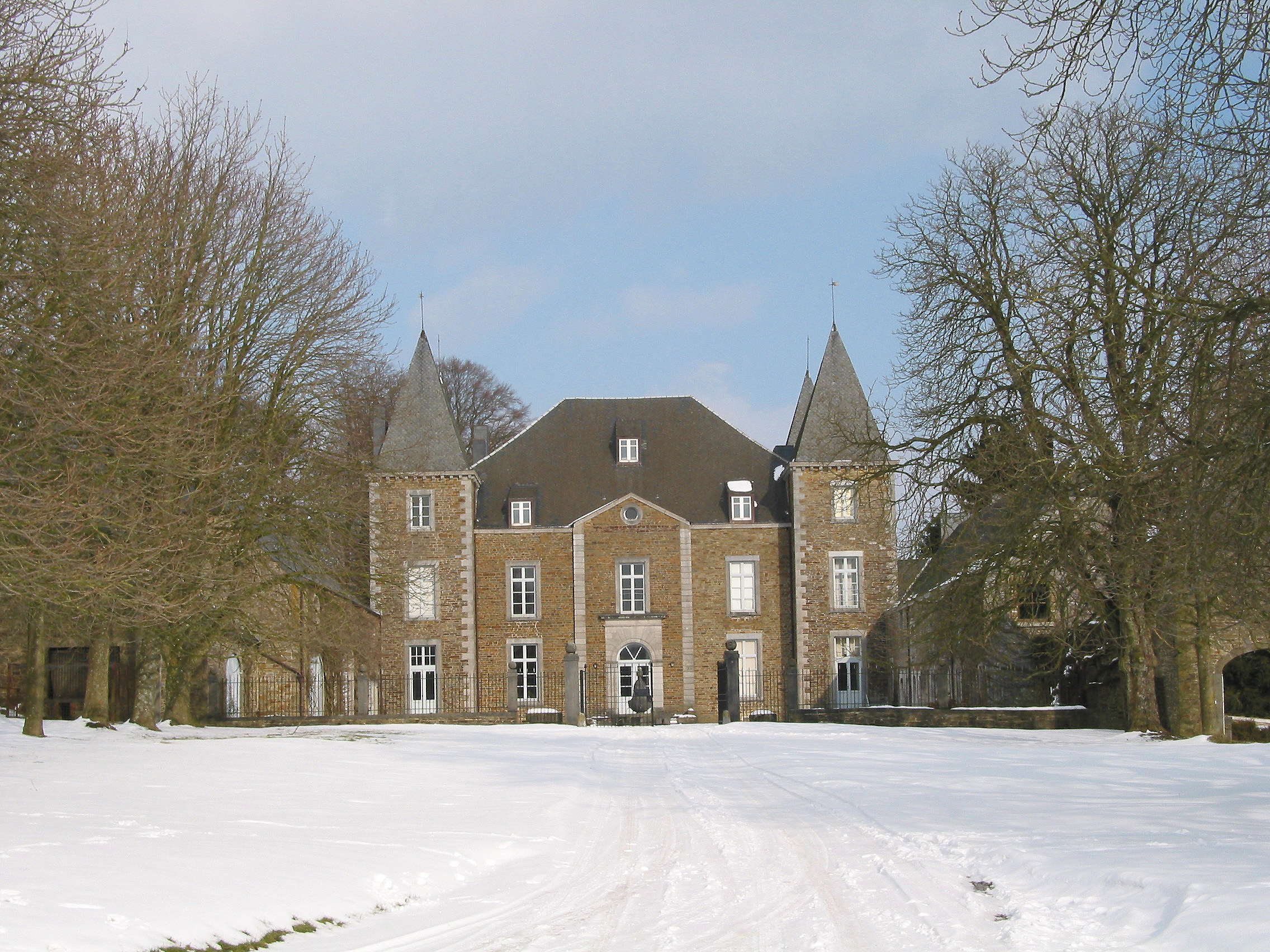 Skeuvre (Natoye), Belgium - the castle (XVIIth century).